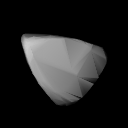 3D convex shape model of 1150 Achaia, computed using light curve inversion techniques. J. Hanuš, J. Ďurech, M. Brož, B. D. Warner (June 2011). "A study of asteroid pole-latitude distribution based on an extended set of shape models derived by the lightcurve inversion method". Astronomy and Astrophysics 530: A134. ISSN 0004-6361. arXiv